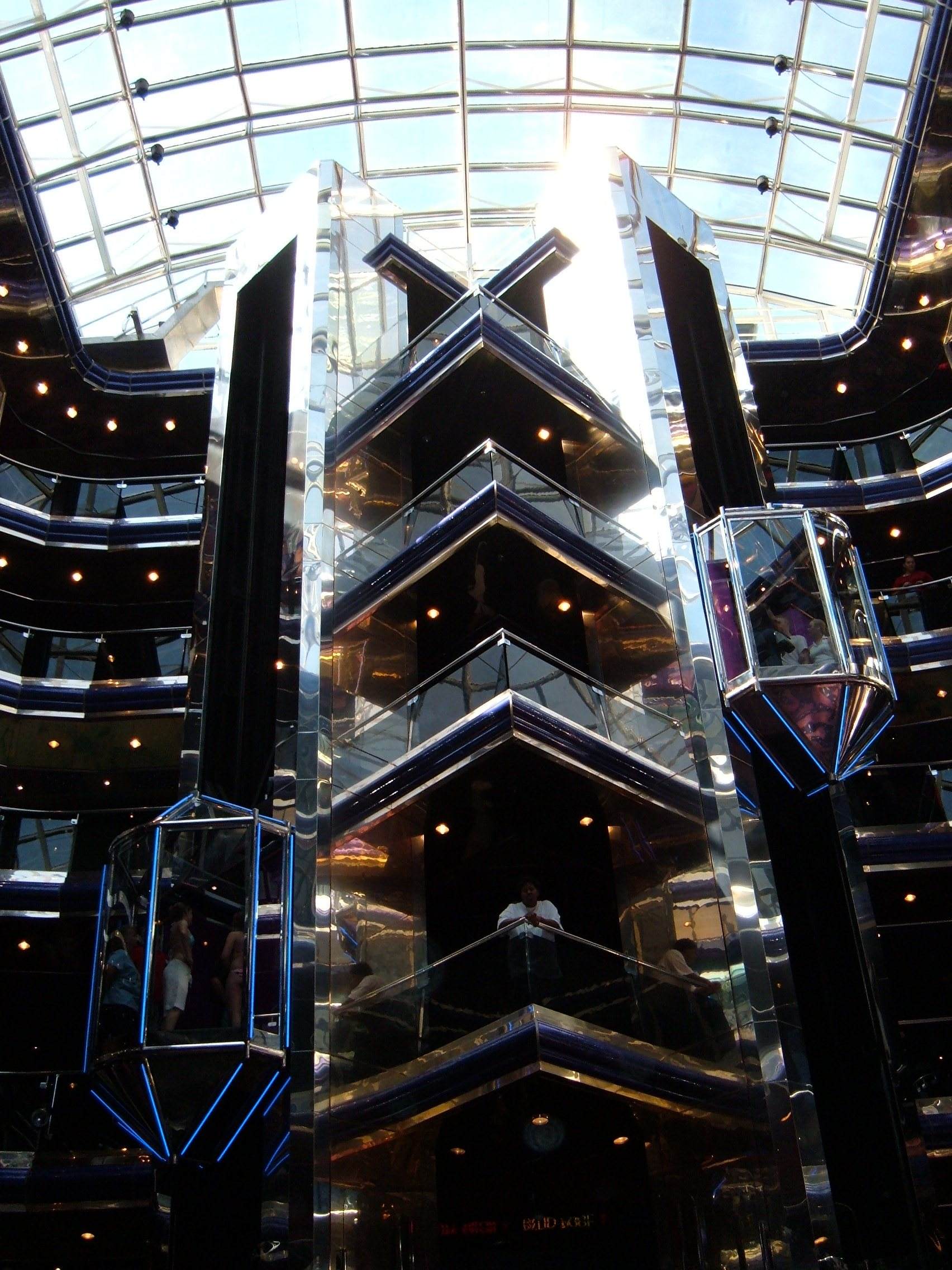 The elevators in the Grand Atrium of the Carnival Sensation'.